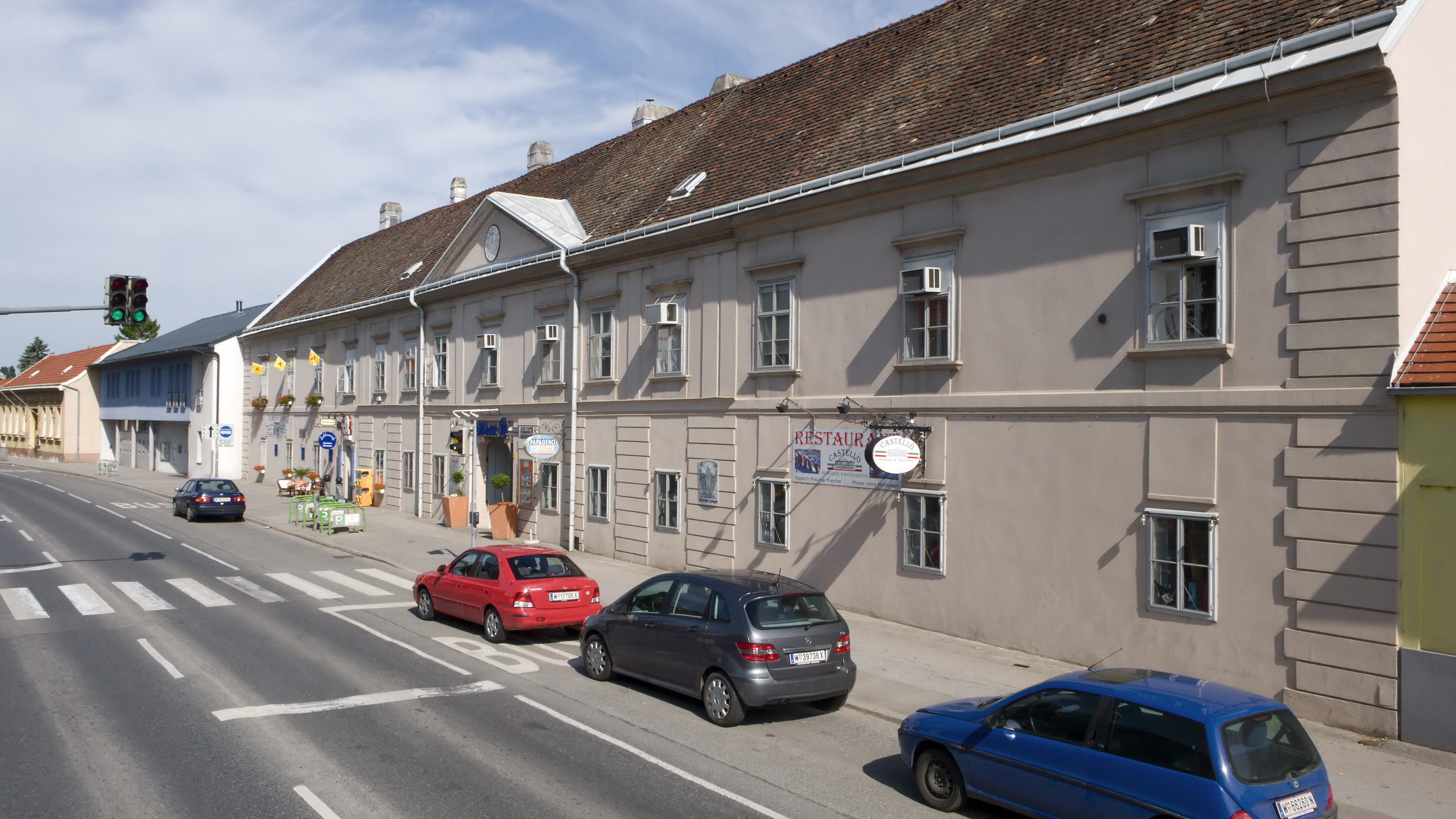 Palace Schloss Essling in Vienna Donaustadt